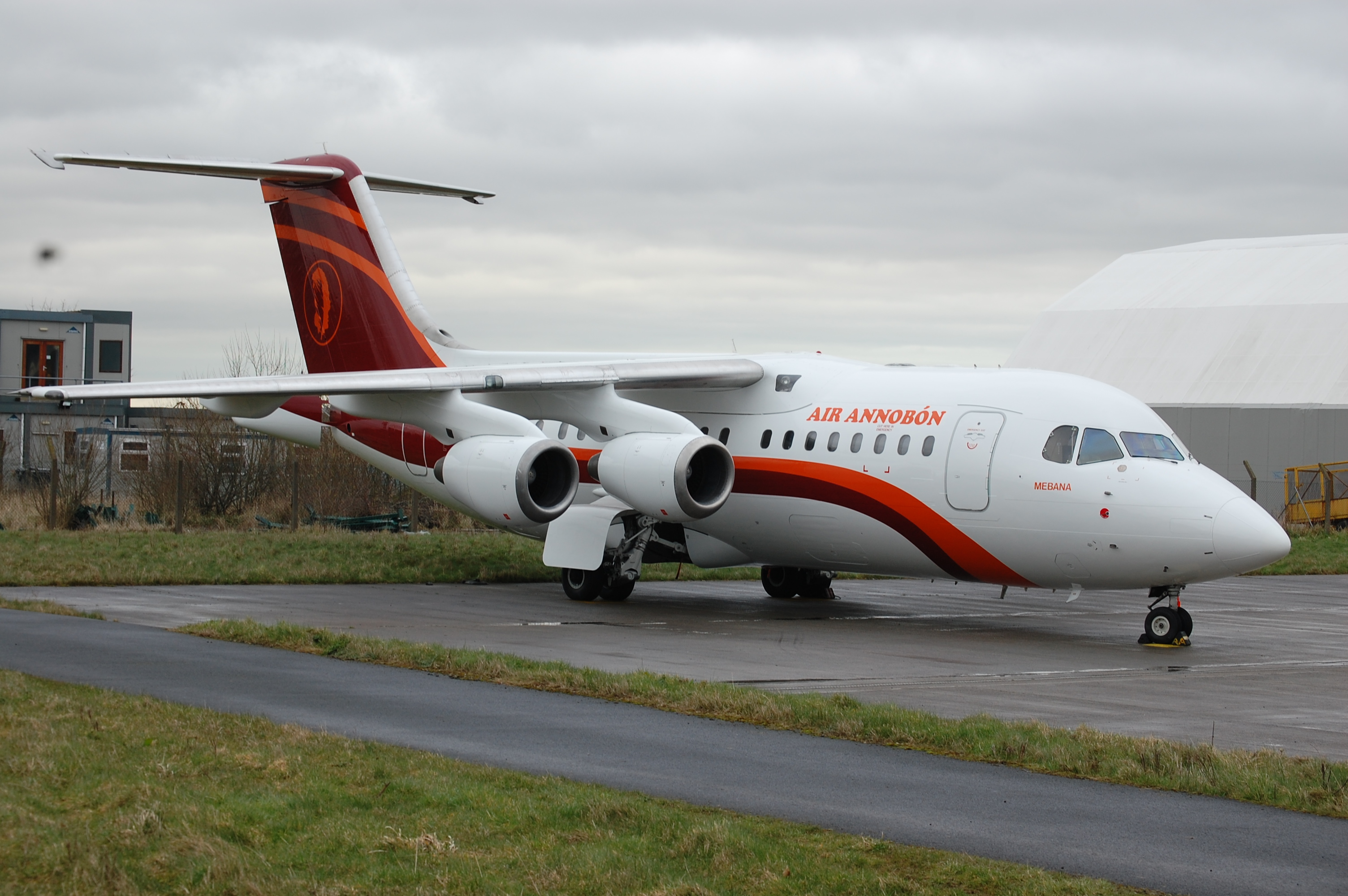 Air Annobón BAe 146-200 registered EI-RJS at Dublin Airport, Ireland. Awaiting delivery to the Equatoguinean airline.